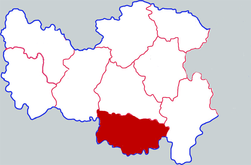 Location of Xin county in Xinyang city, China